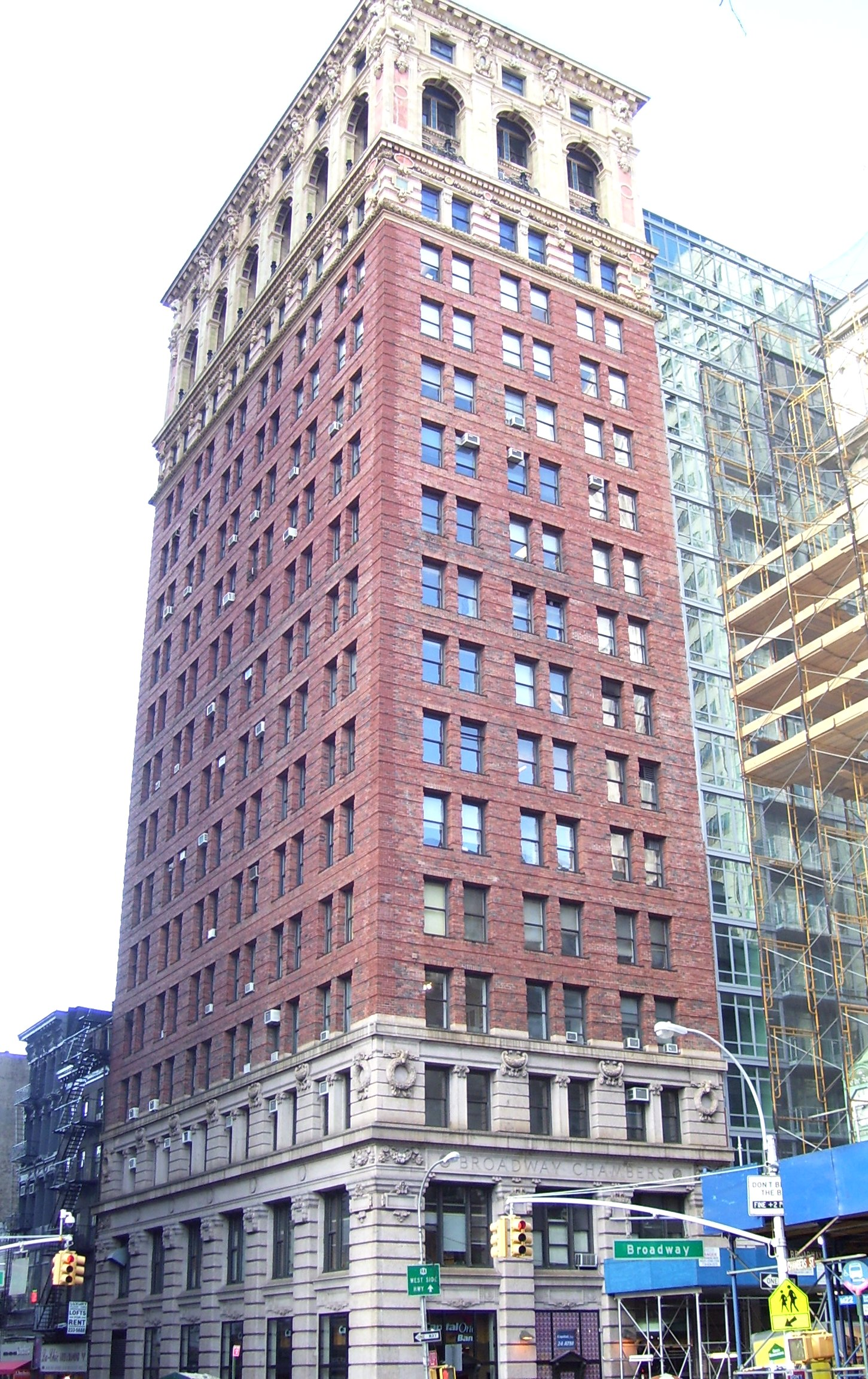 The Broadway-Chambers Building at 277 Broadway on the corner of Chambers Street in the Tribeca neighborhood of Manhattan, New York City was built in 1899-1900 and was architect Cass Gilbert's first design in New York City. The building is made in the Beaux-Arts style, and was designated a NYC landmark in 1992. (Sources: Guide to NYC Landmarks (4th ed.) and "NYCLPC Designation Report")